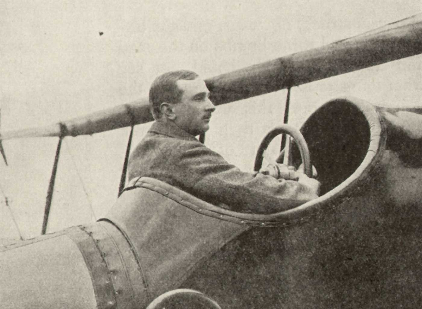 A picture of Flight-Lieutenant C. H. Collet, R.N., D.S.O. sat in the rear cockpit of a DFW Mars, (from a collection of photographs where the copyright has expired found on )